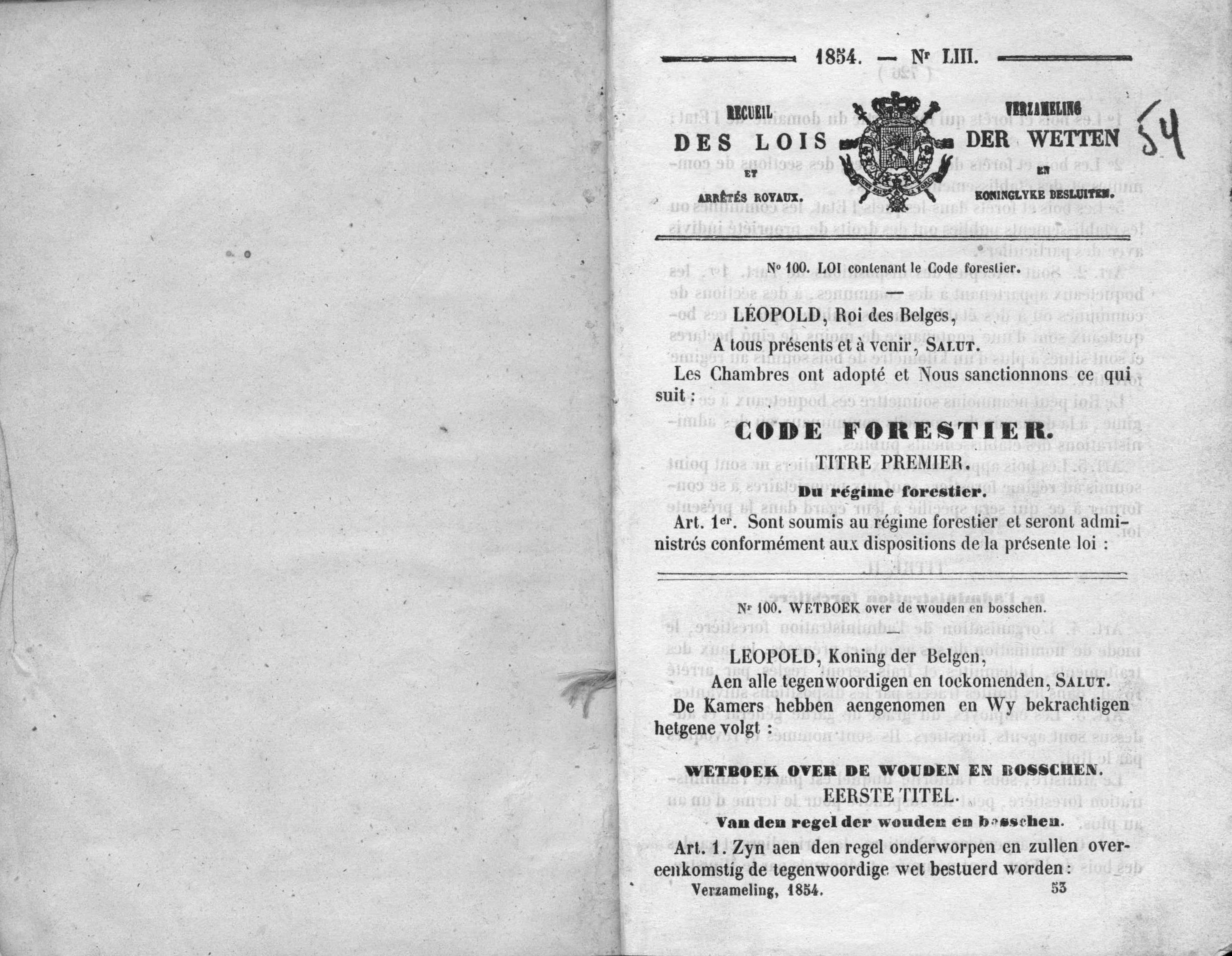 Frontpage of the Forest Law Book of Belgium